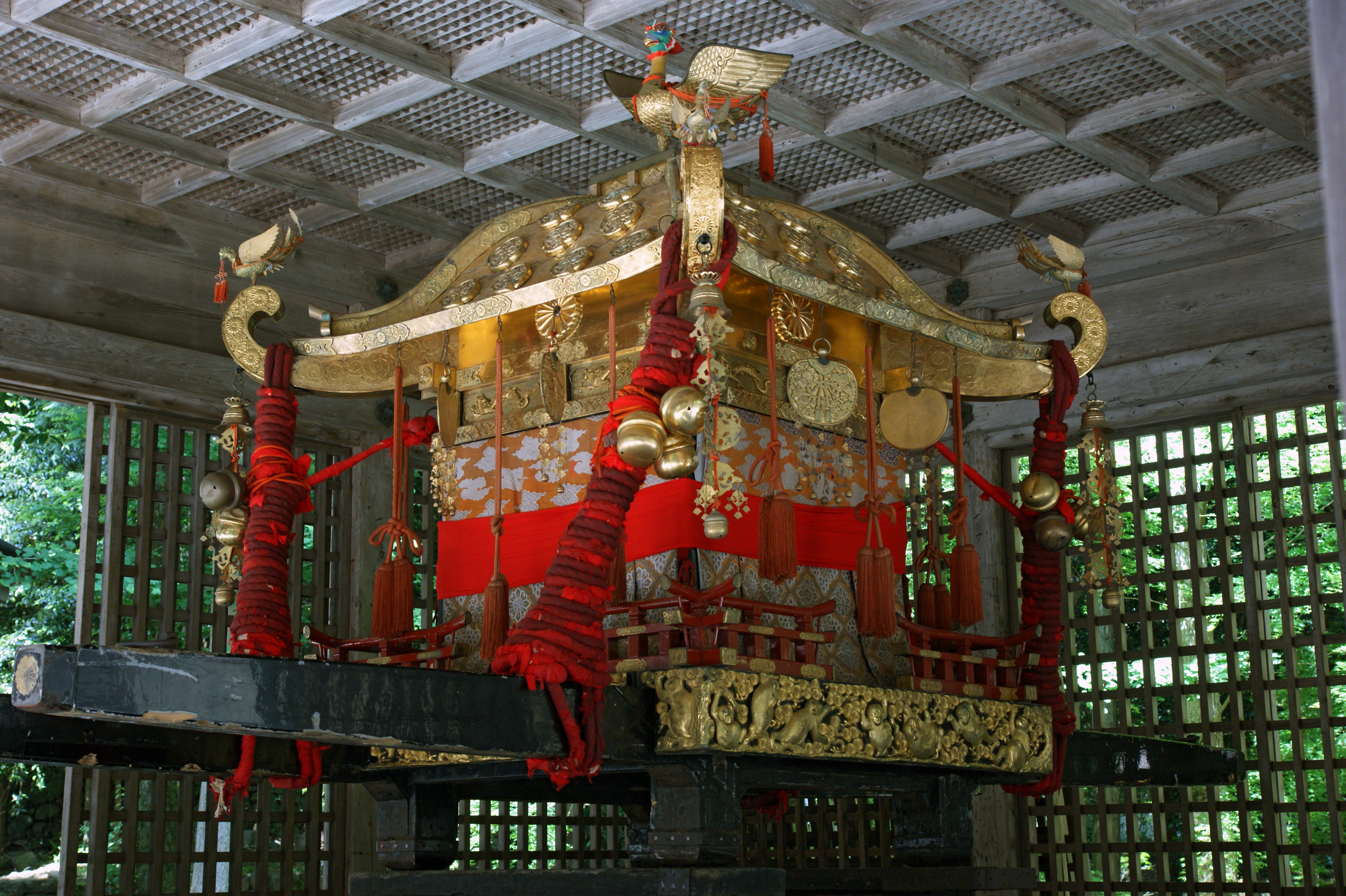 Hiyoshi Taisha in Otsu, Shiga prefecture, Japan